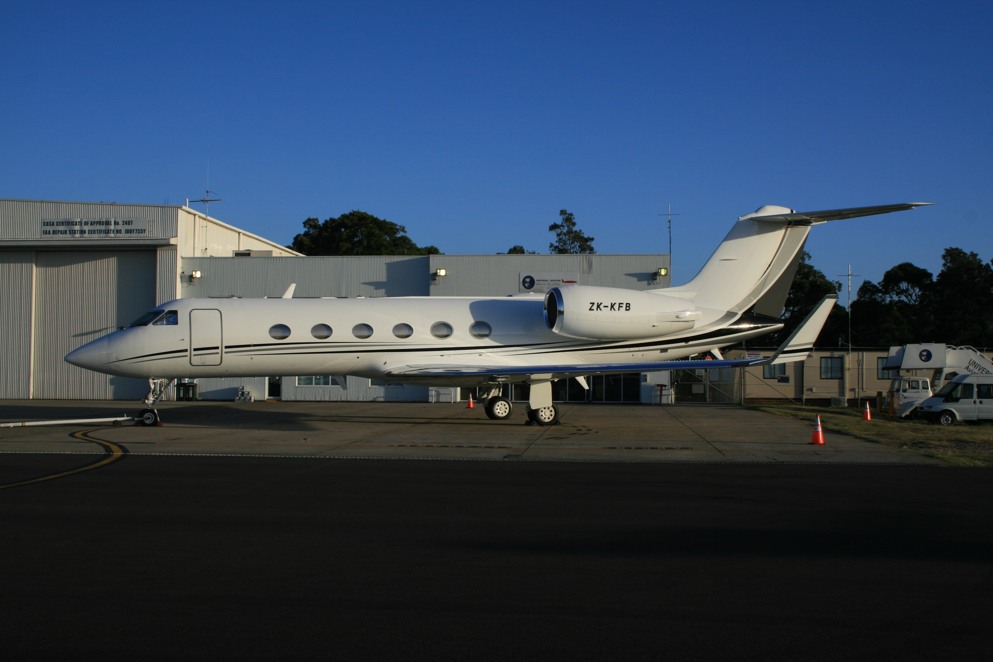 Air National's Gulfstream IV-SP, ZK-KFB, is a frequent visitor to Sydney Airport.